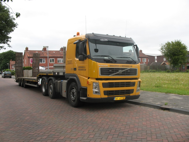 2009 Volvo FM13 400 (MC3AP6S, A3B2N model) in the Netherlands